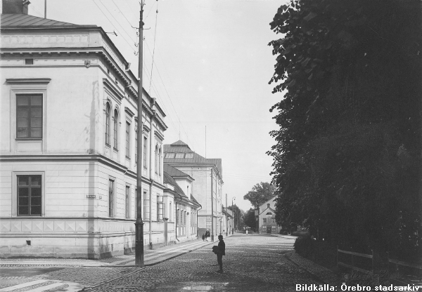 The hussar regiment's officer's building, Örebro, Sweden